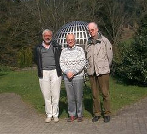 Yianni Moschovakis (left), Helmut Schwichtenberg (middle), Anne S. Troelstra (right), Oberwolfach 2002